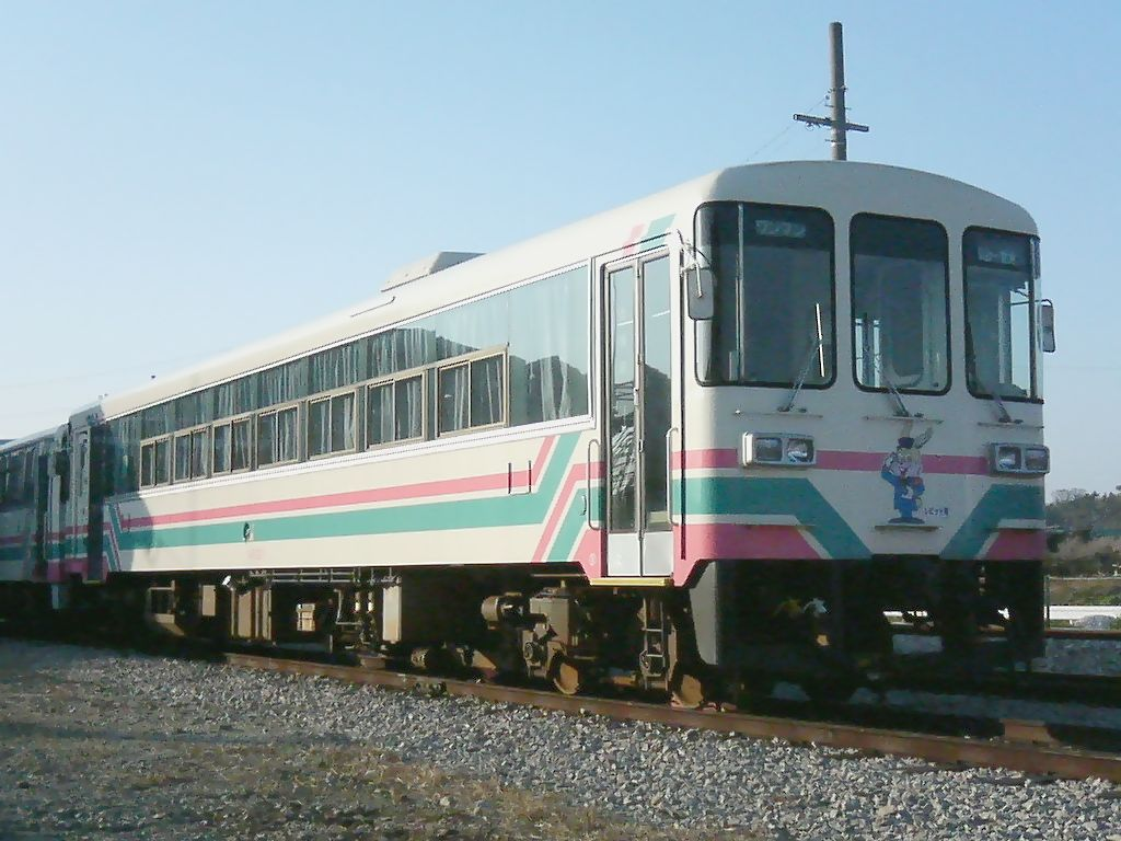 Amagi Railway DMU AR201 Location:Amagi Railway Tachiarai Station, Chikuzen Town, Fukuoka, Japan.